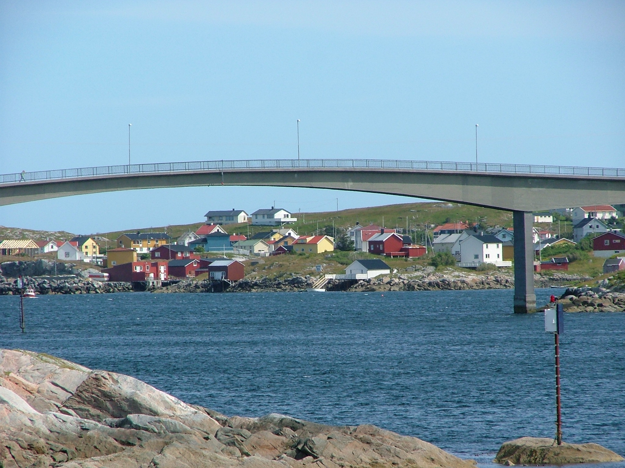 Picture of Mausund with the bridge over to Aursøya in the foreground.